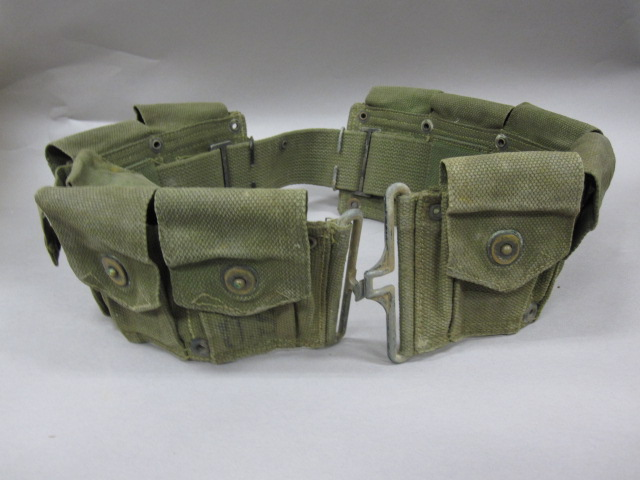 Accession: 2011-19-42 Cartridge Belt, M1923 4,75"H x 33.5" W Cartridge Belt, M1923, manufactured by R.M. Co. The belt is olive drab cotton canvas with 10 individual pouches for use with the Springfield 1903 cartridges. Belt has straps to hold in the Springfield stripper clips. This belt was used in the early period of WWII. Collection of Curator Branch, Naval History and Heritage Command.